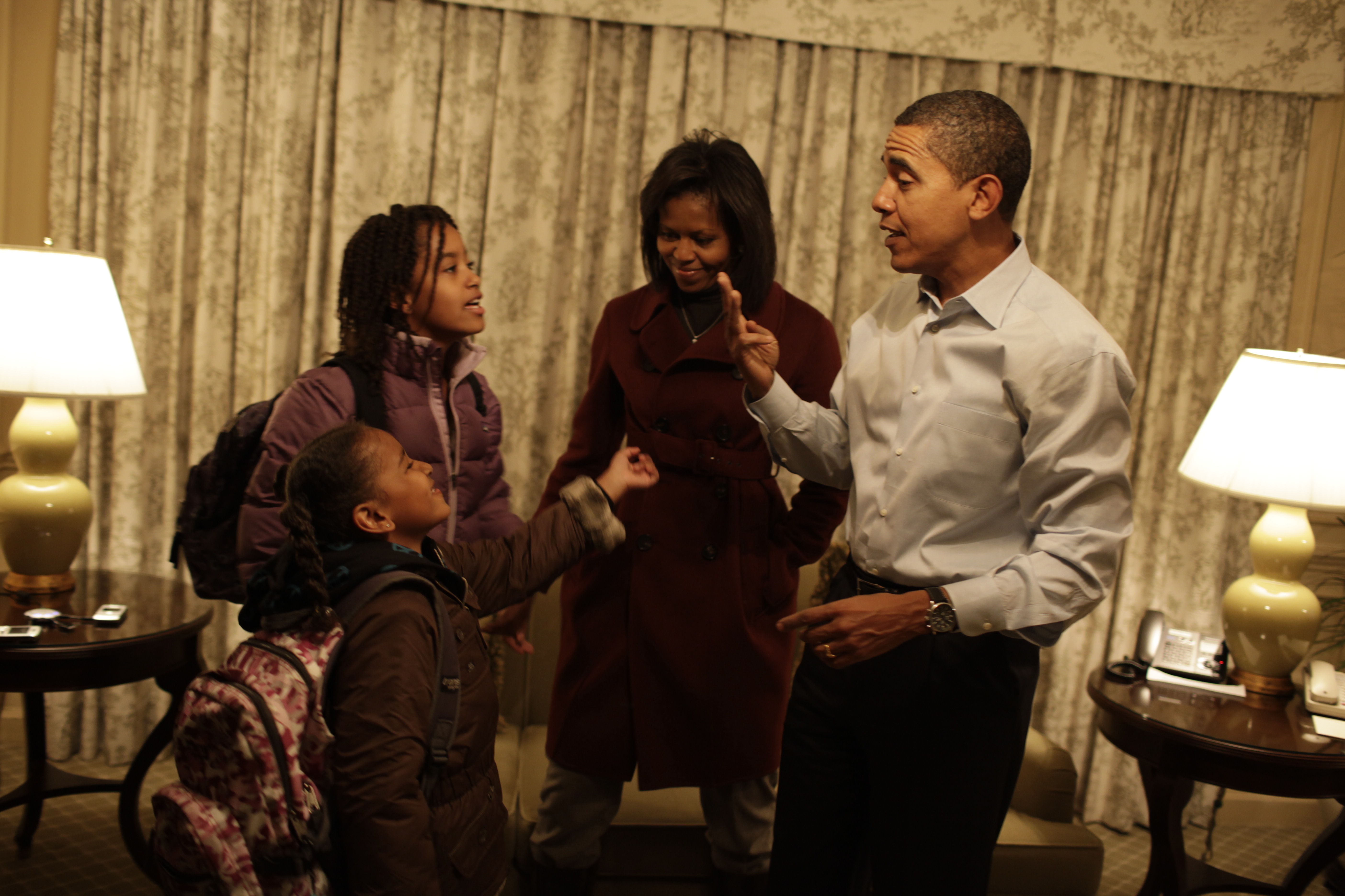 Barack Obama, Michelle Obama and daughters Sasha (7) and Malia (10) at the Hay Adams Hotel in Washington, DC, getting ready for the first day of school.